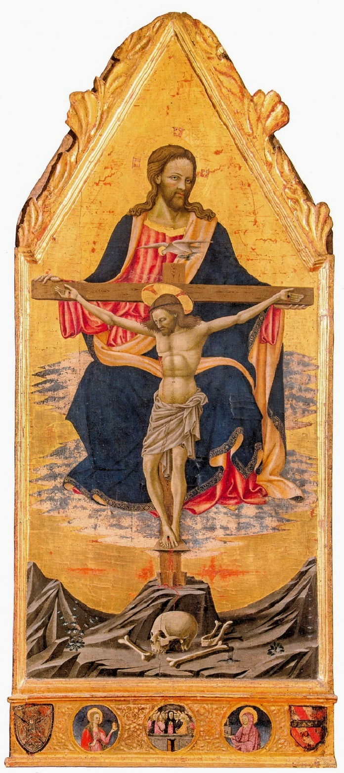 Apollonio di Giovanni. Trinita, ca. 1440, Prato, Museo dell'Opera del Duomo